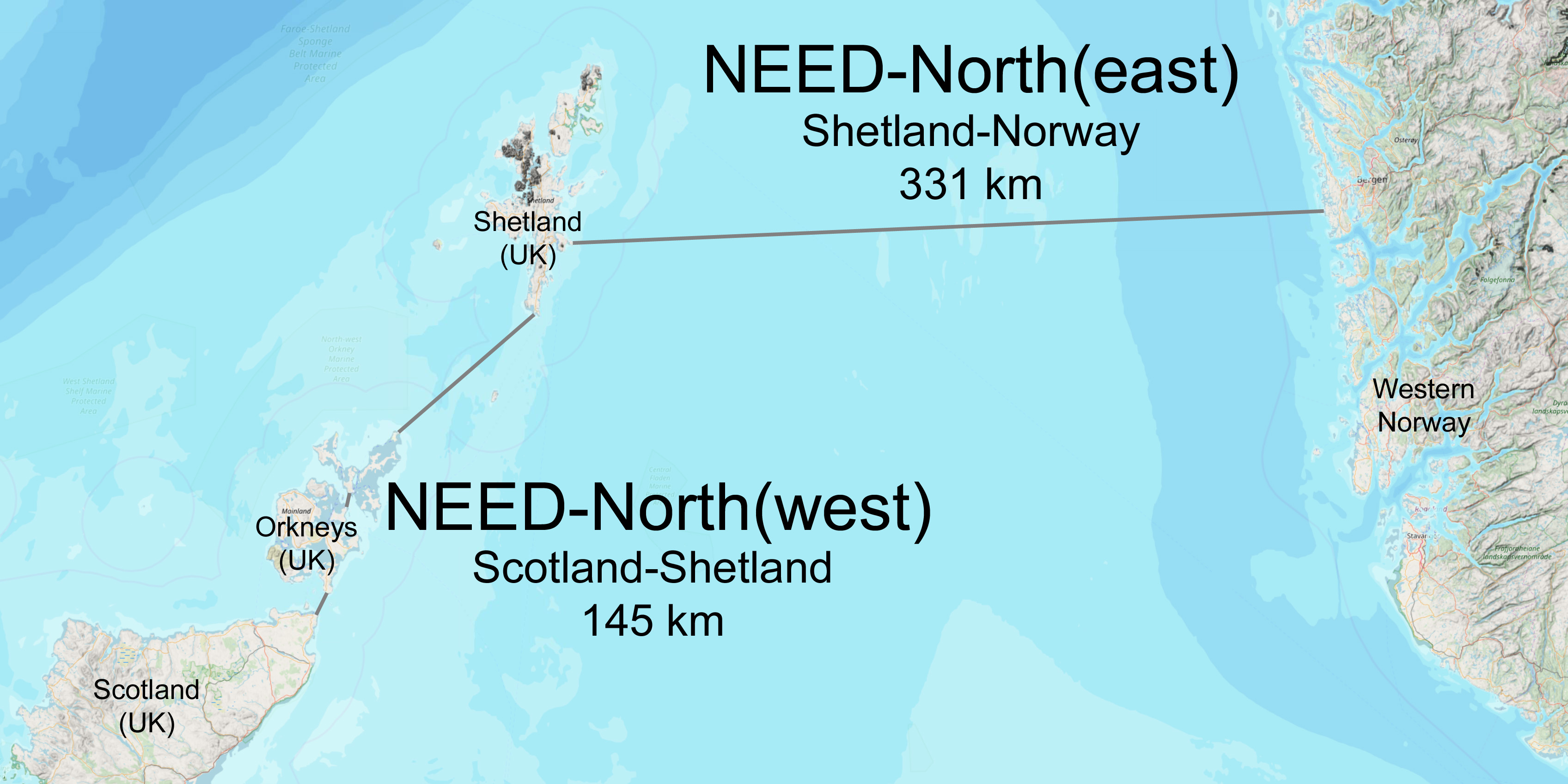 The prospected North European Enclosure Dam (NEED) North - Scotland to Norway Section